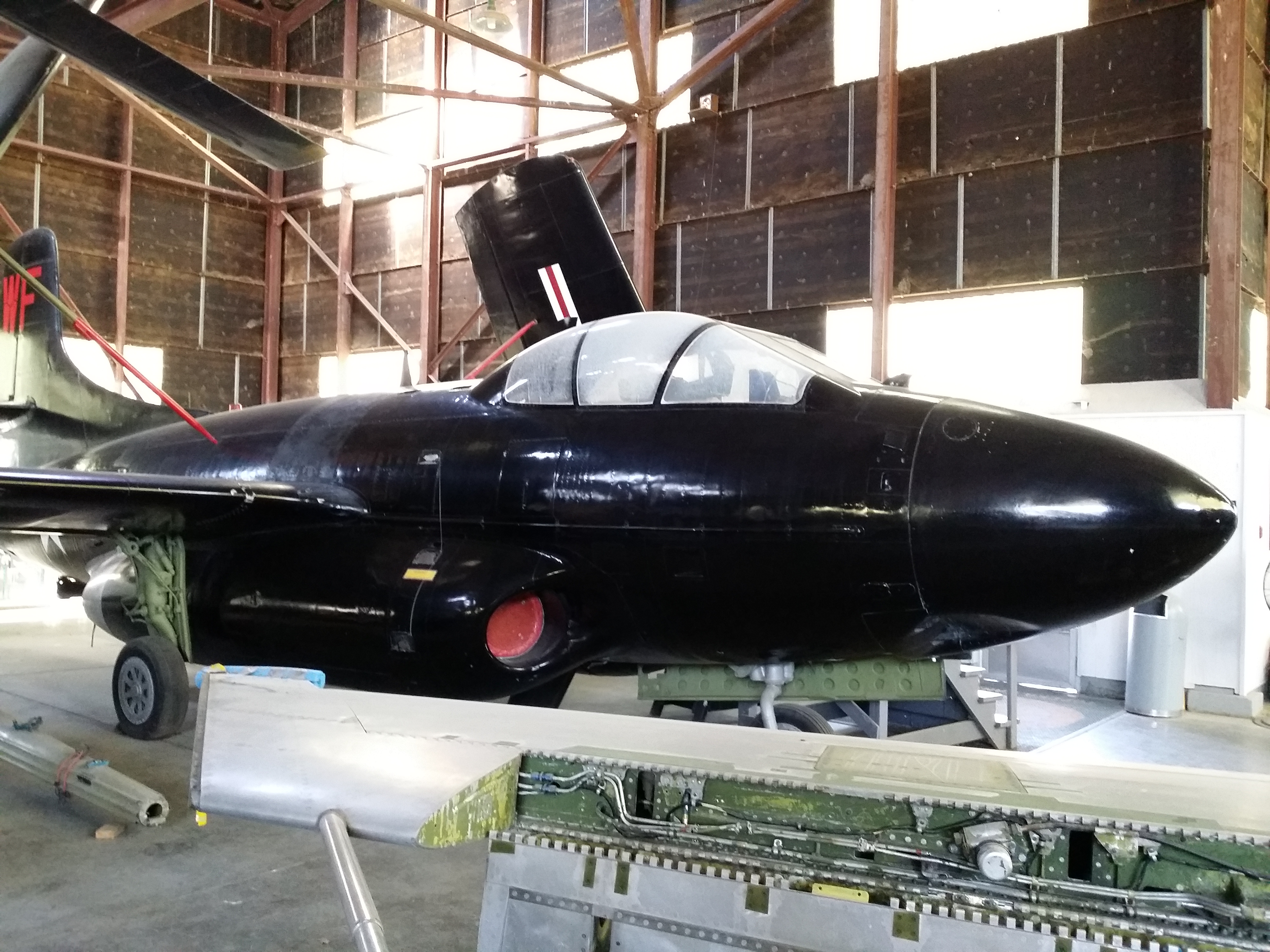 Williamsport, KS, USA